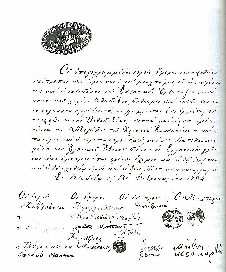 A letter from the Greek municipality in the village of Vladovo, today Agras, Greece. Text: The signed below, priests, regents of the schools, commissioners of the holy church and the official president of the community, as representatives and proxies of the Greek Orthodox Community of village Vladovo, state with this, signed by us, official letter, that we stay hardily in Orthodoxy, faithful and staunch "children of the Holy Christ's Church" as our fathers and our forefathers, and that we remain members of the Greek Nation because we carry Greek language from immemorial times to our holy church, to our school and to our private transactions. In Vladovon, 18th February 1904. Priests: Papaioannou, ...... , ...... , Tryfon Paschou Baskas, Katsos Barkas Regents: Dimitrios Klaskas, ...... , Christos Misaskas, Dimitrios Azades Commissioners: ...... , Evangelos Treikos President: Milos Bakarlas